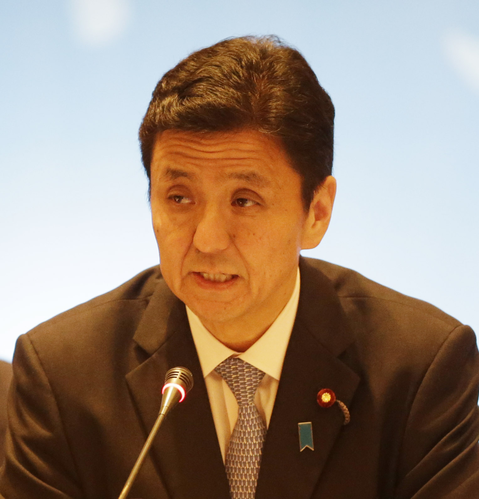 Japan Parliamentary Senior Vice Minister for Foreign Affairs Nobuo Kishi, delivers his speech during CTBT in Jakarta , Indonesia, Monday, May 19, 2014.